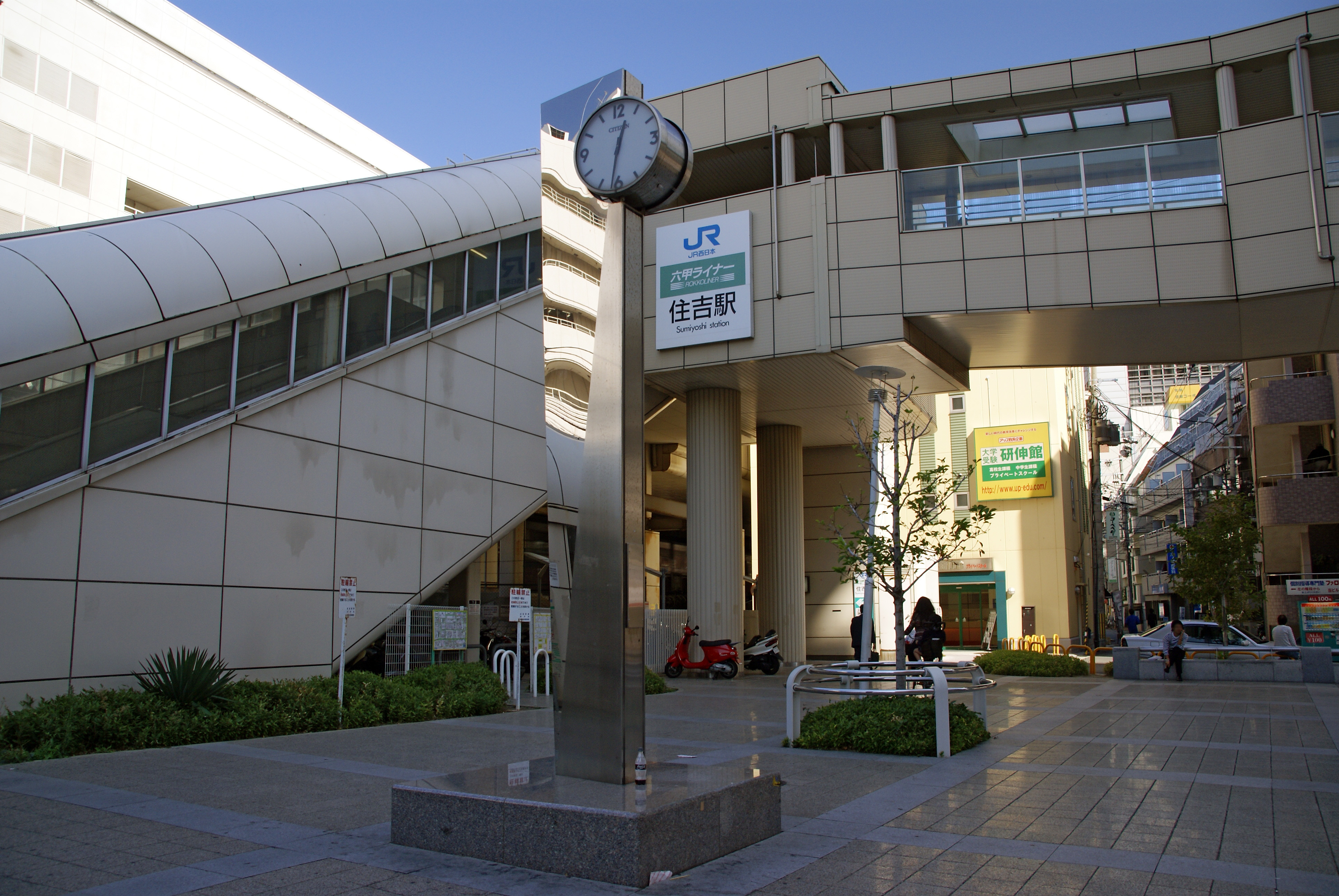 JR Sumiyoshi Station in Kobe, Hyogo prefecture, Japan